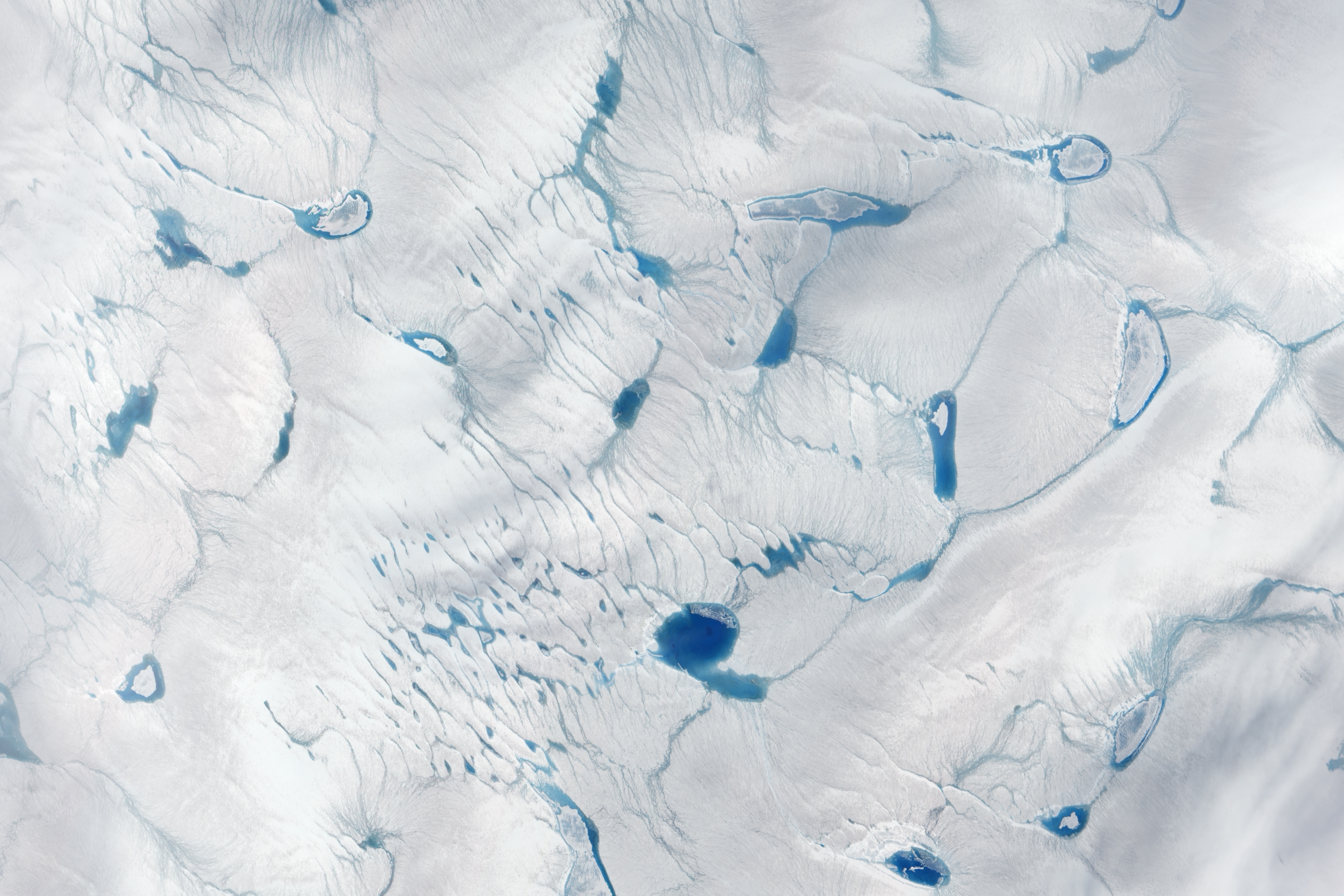 On June 15, 2016, the Advanced Land Imager (ALI) on NASA’s Earth Observing-1 satellite acquired a natural-color image of an area just inland from the coast of southwestern Greenland (120 kilometers southeast of Ilulisat and 500 kilometers north-northeast of Nuuk). According to Marco Tedesco, a professor at Columbia University’s Lamont Doherty Earth Observatory, melting in this area began relatively early in April but was not sustained. It started up again in May and grew into the watery June scene pictured above. Surface melt can directly contribute to sea level rise via runoff. It can also force its way through crevasses to the base of a glacier, temporarily speeding up ice flow and indirectly contributing to sea level rise. Also, ponding of meltwater can “darken” the ice sheet’s surface and lead to further melting. Read more: Credit: NASA Earth Observatory image by Jesse Allen, using EO-1 ALI data provided courtesy of the NASA EO-1 team NASA image use policy NASA Goddard Space Flight Center enables NASA’s mission through four scientific endeavors: Earth Science, Heliophysics, Solar System Exploration, and Astrophysics. Goddard plays a leading role in NASA’s accomplishments by contributing compelling scientific knowledge to advance the Agency’s mission. Follow us on Twitter Like us on Facebook Find us on Instagram